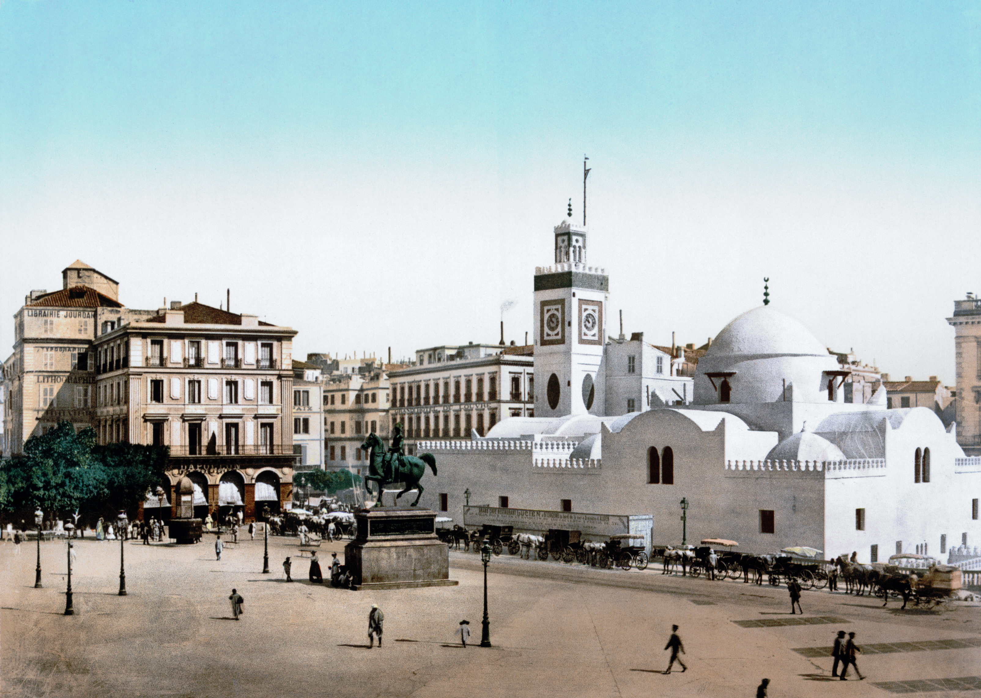 Government place in Algiers under French rule (Algeria, 1899).